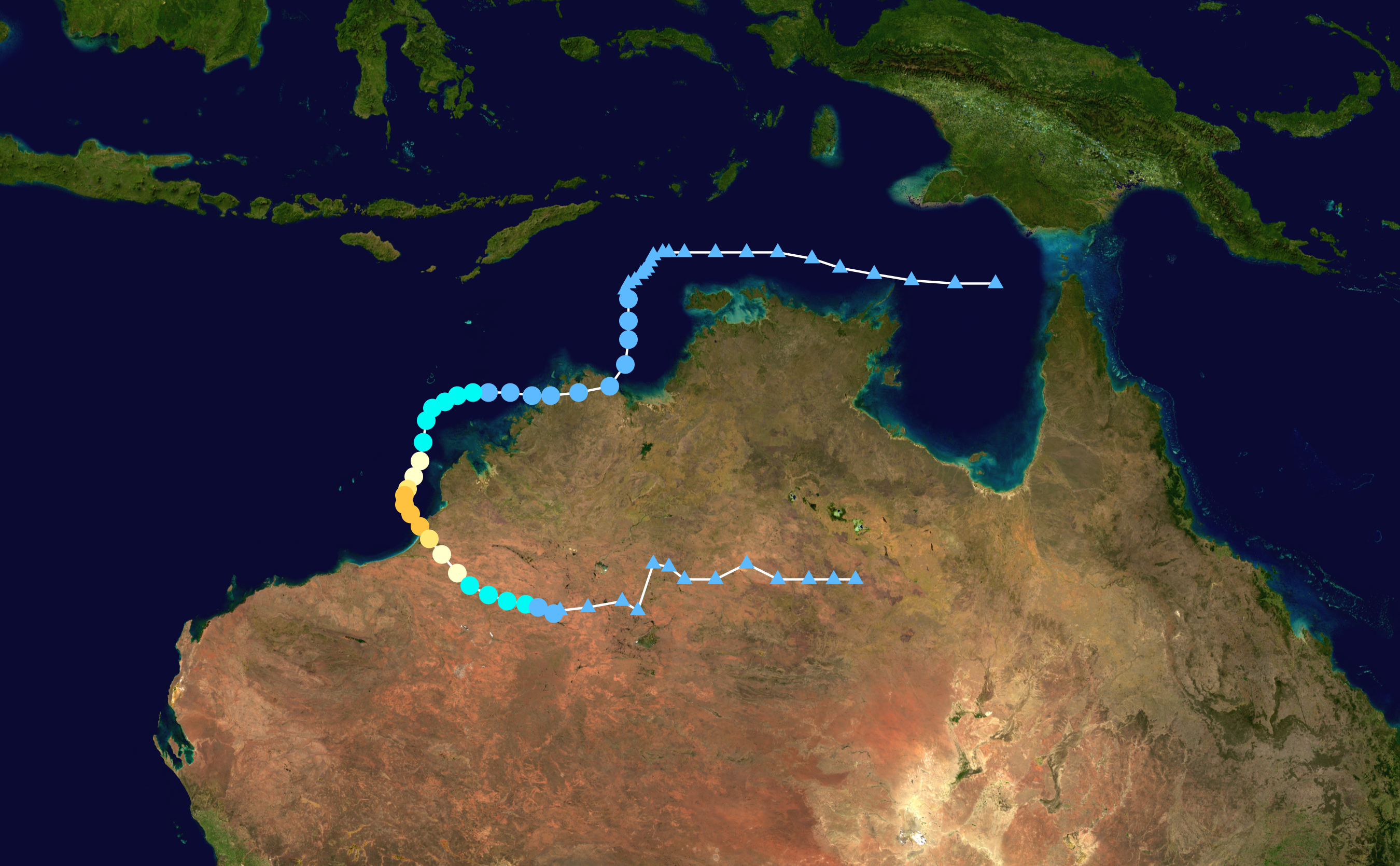 Cyclone Sam (2000) track. Uses the color scheme from the Saffir-Simpson Hurricane Scale.